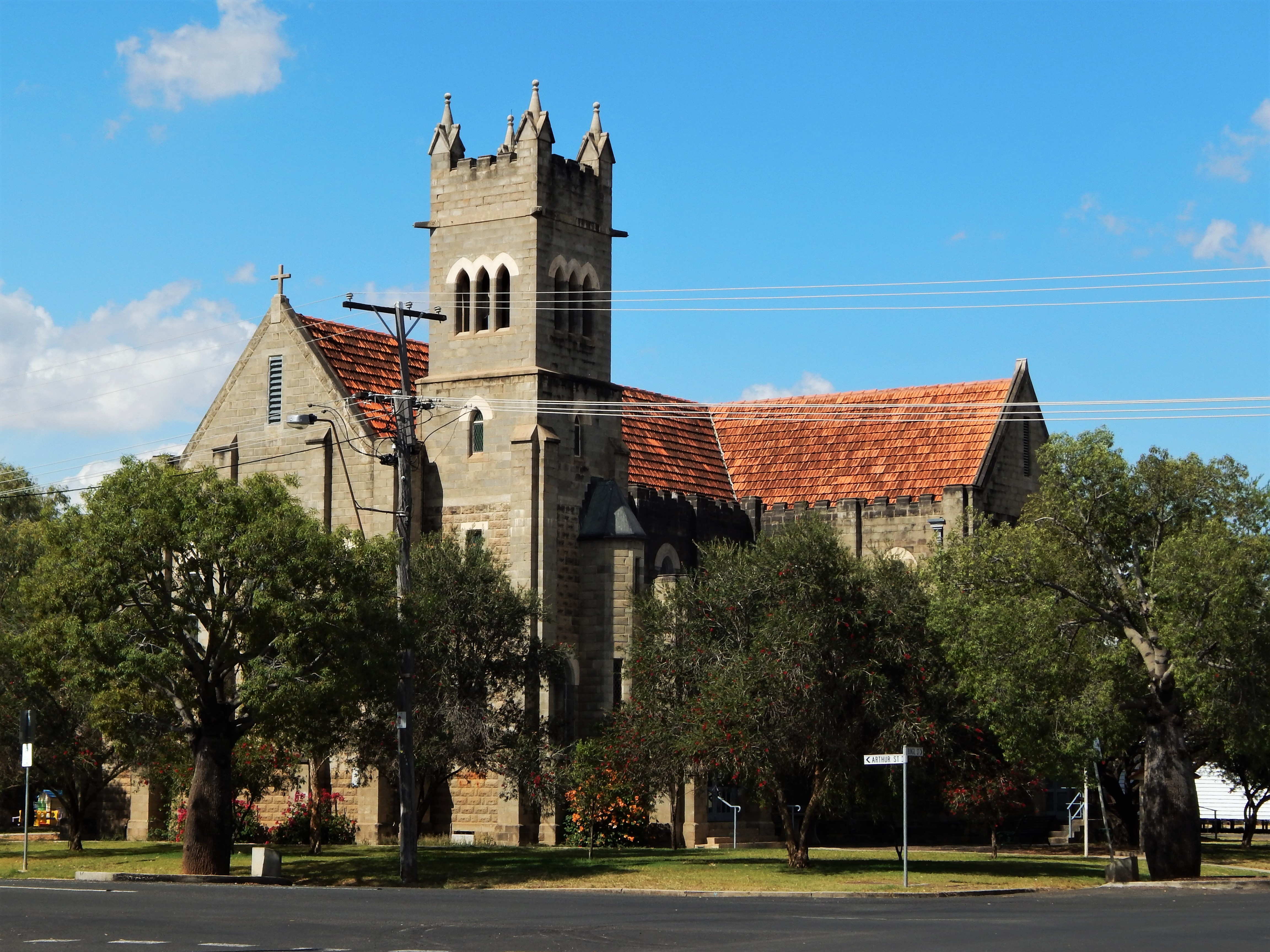 St Paul's Anglican Church in Roma, Queensland. According to signage, the foundation stone for this church was laid in March 1913, replacing the timber church on the same site which had been built in 1875.